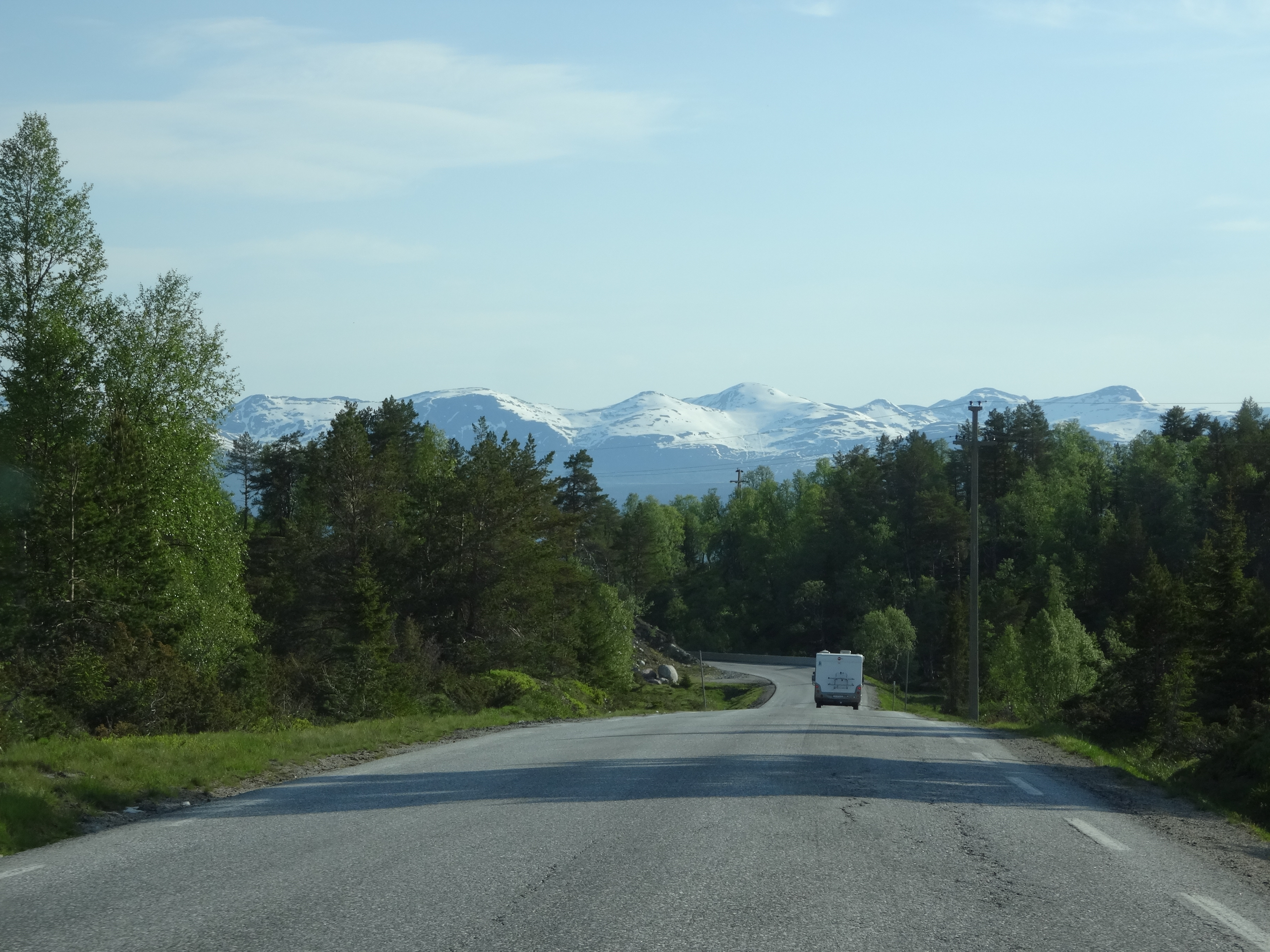 The Rv60 between Byrkjelo and Utvik